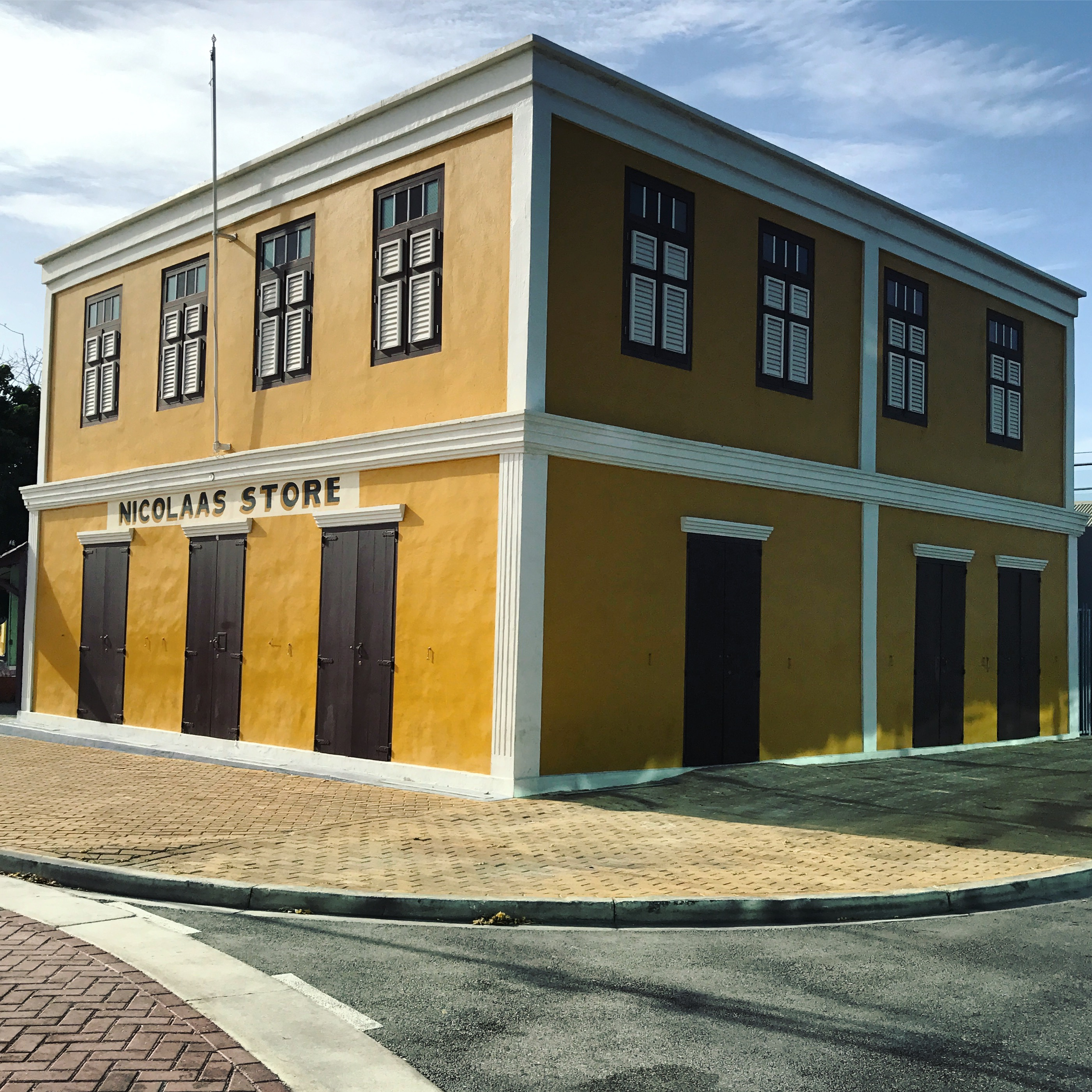 Newly renovated Nicolaas Store in Sanicolas.